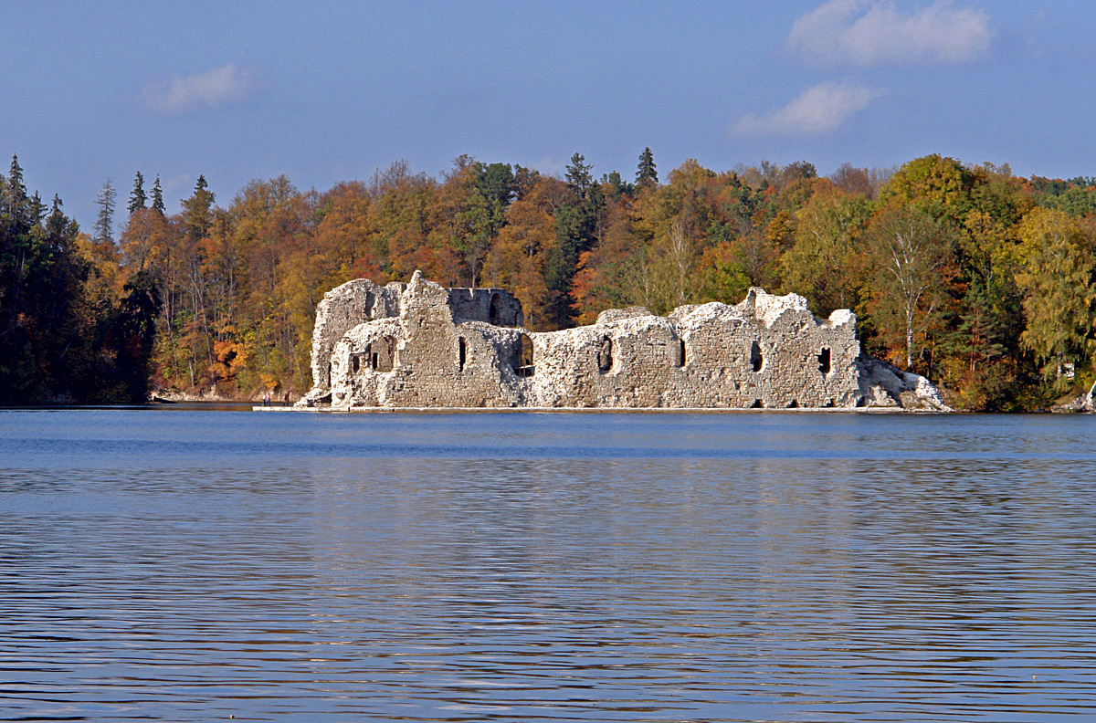 Ruins of Koknese medieval castle from the opposite bank of Daugava